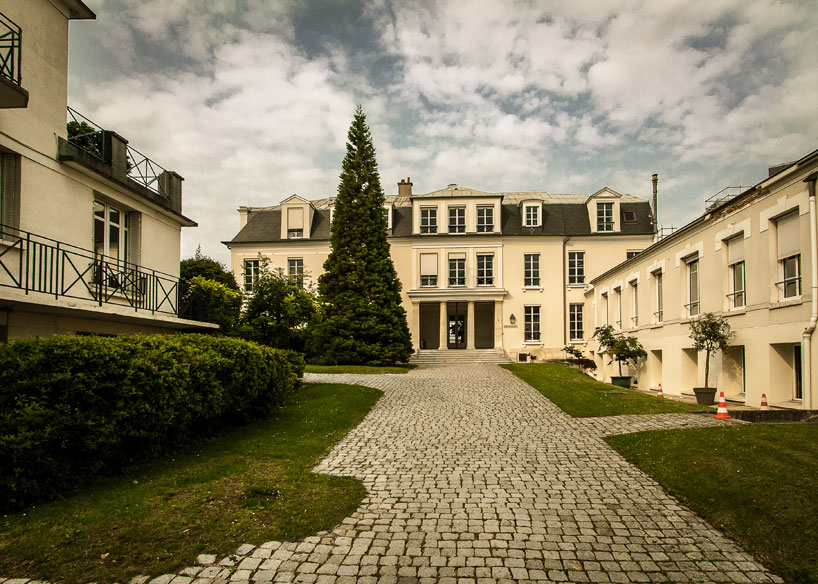 Cast Building in Meudon (France)